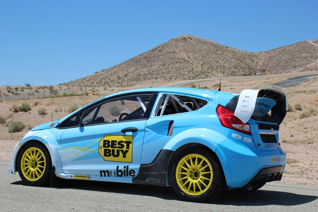 Marcus Grönholm's Ford Fiesta Rallycross Supercar, set to compete in the 2012 Global RallyCross Championship for Team Best Buy Mobile Olsbergs MSE.